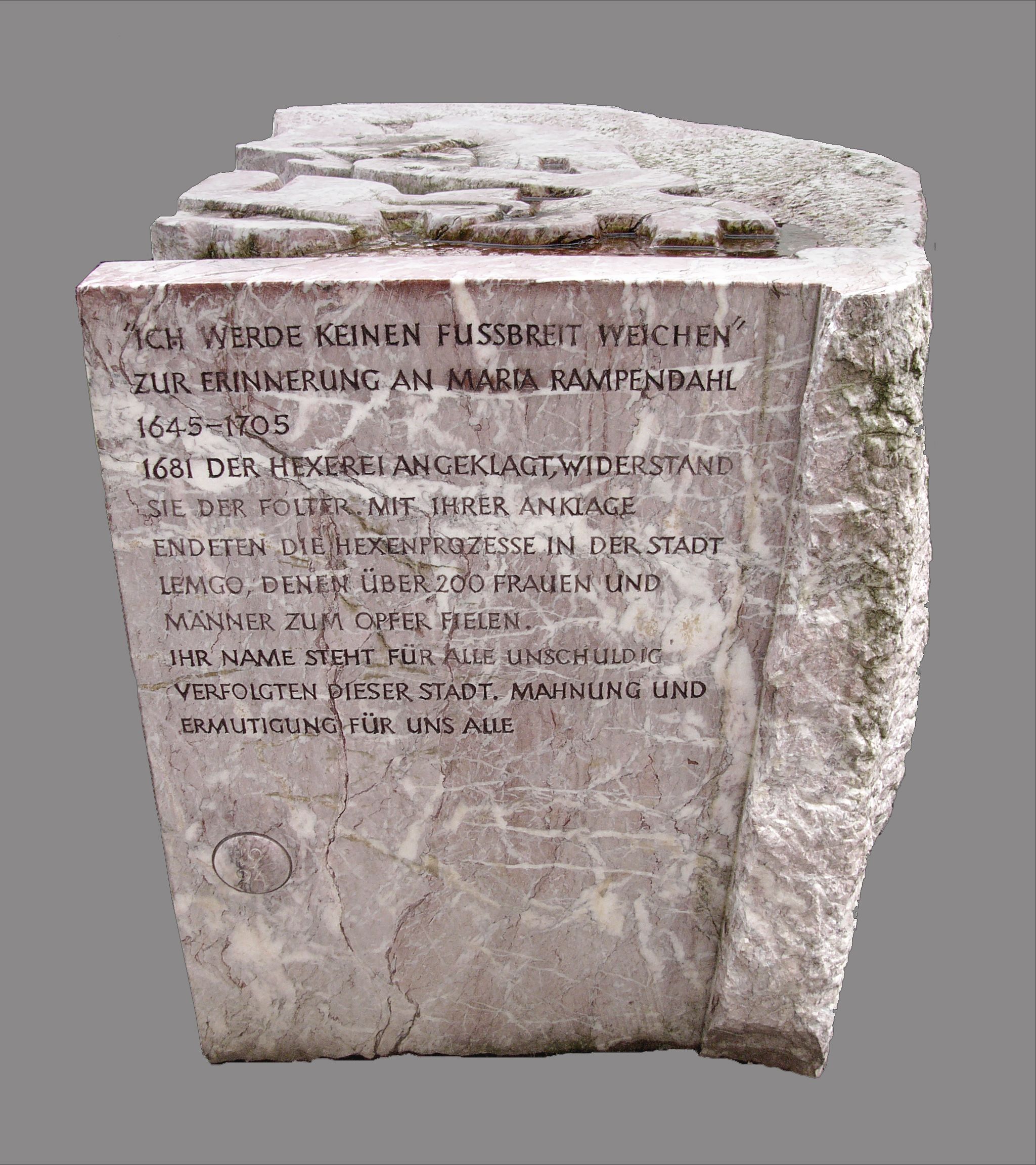 Memorial in Lemgo to Maria Rampendahl who was accused of witchcraft in 1681 and the more than 200 victims of witch trials in Lemgo.